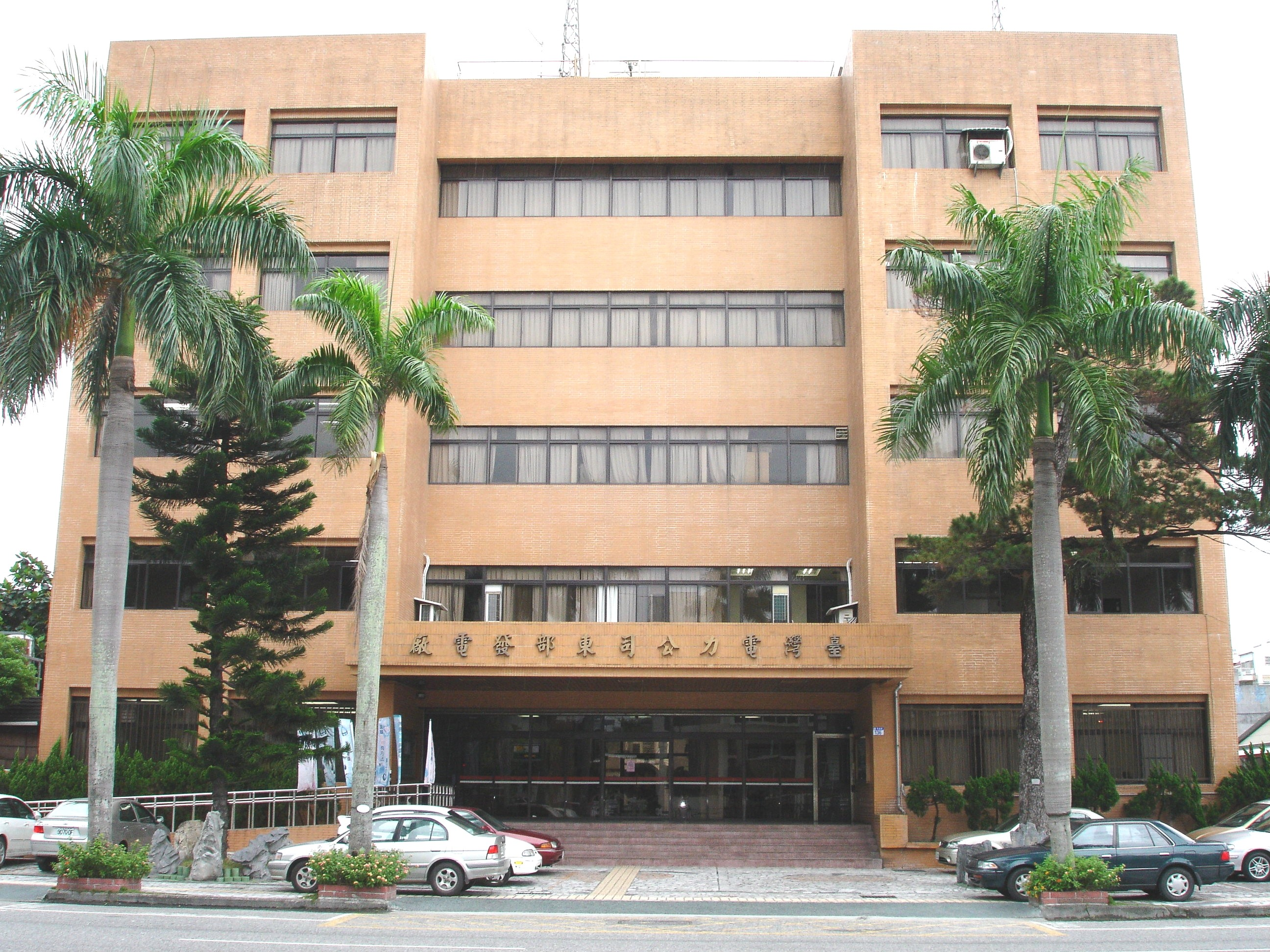 Taiwan power Company The Eastern Power plant HQ